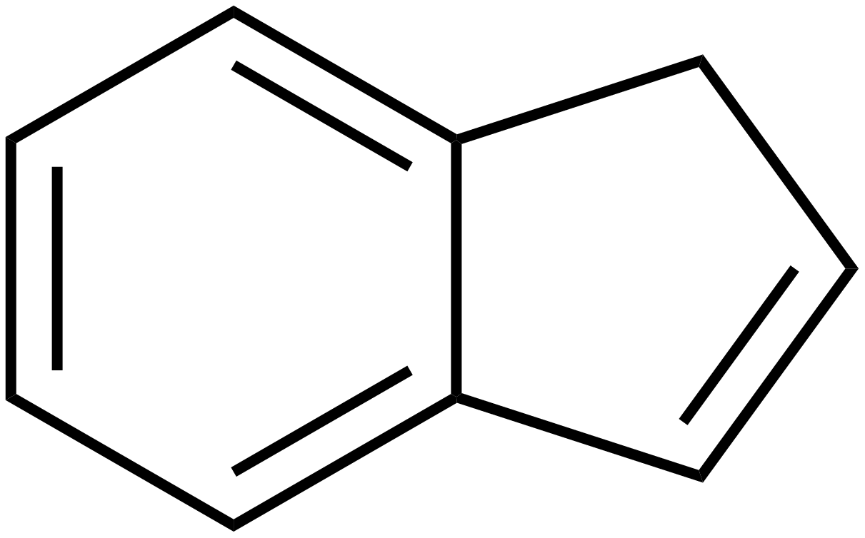 chemical structure of indene